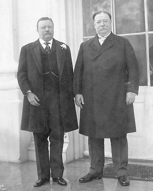 US President Theodore Roosevelt standing with William Howard Taft prior to Taft's inauguration, 1909.